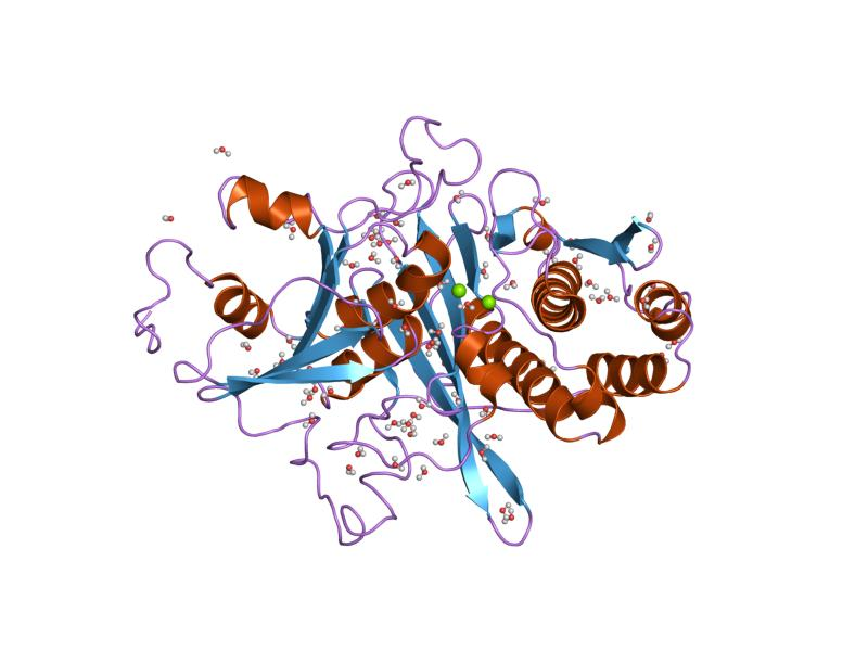 Cartoon representation of the molecular structure of protein registered with 1inp code.